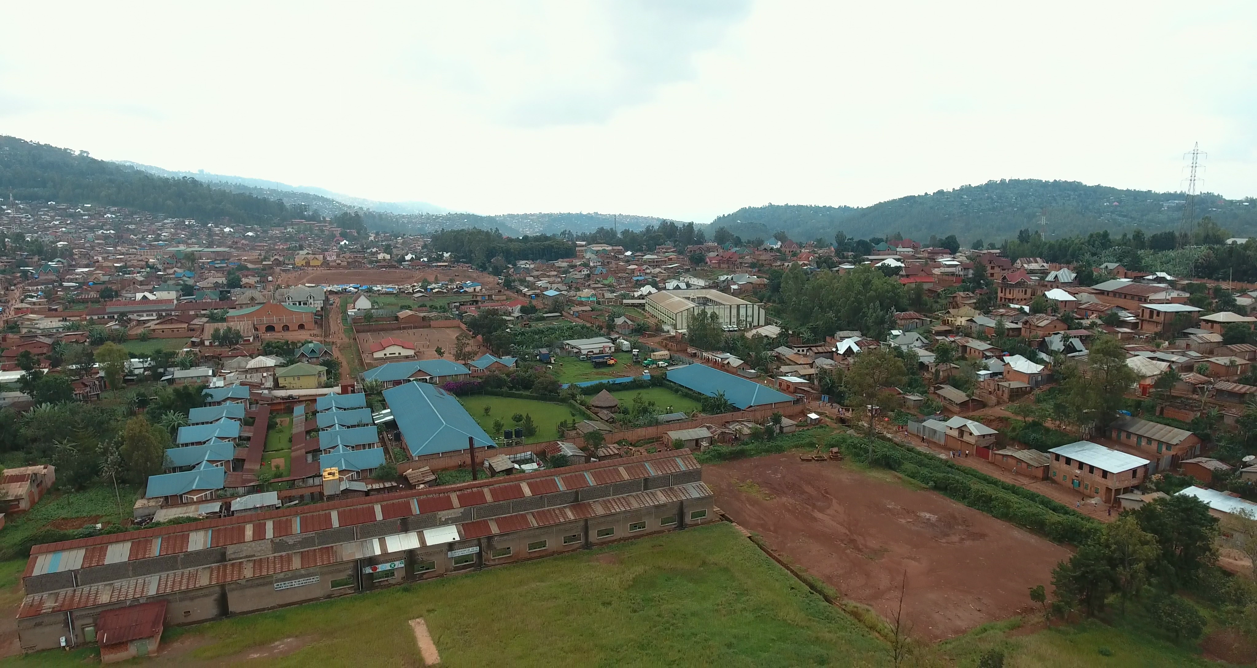 la cité de panzi à bukavu rdc This is an image of "African people at work" from Democratic Republic of the Congo